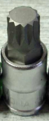 XZN screwdriver bits